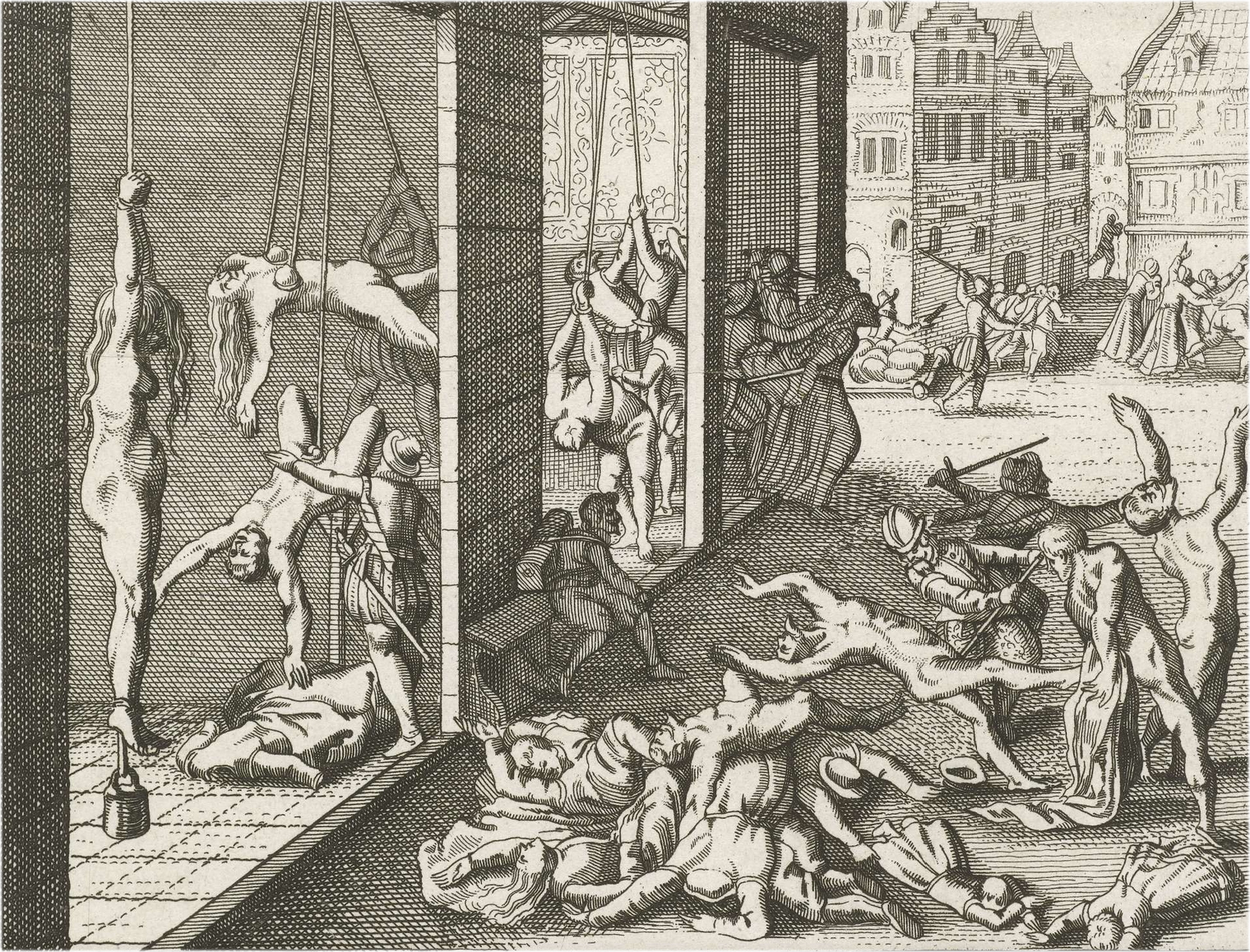 Spanish Fury at Antwerp